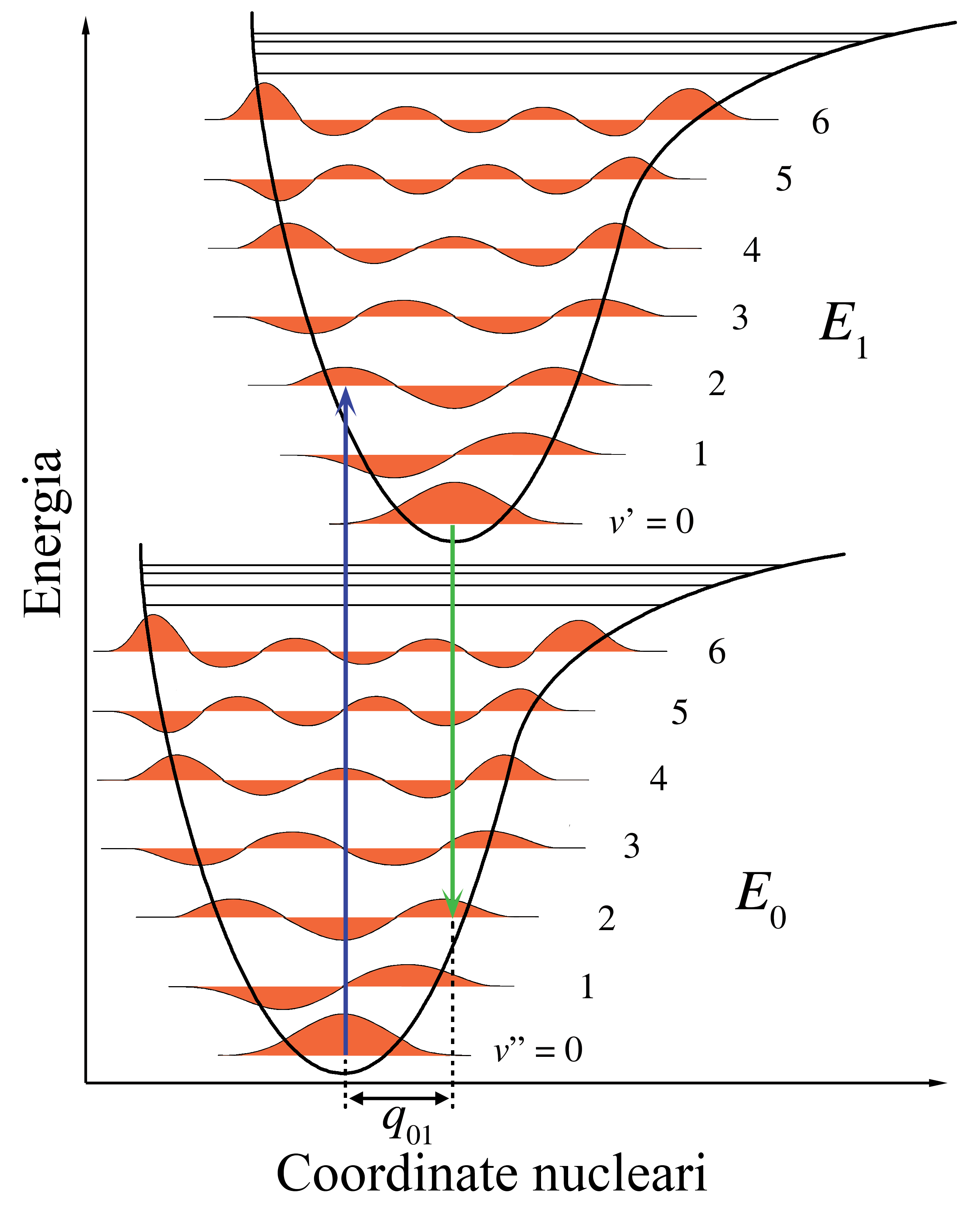 Depiction of Franck Condon principle in absorption and fluorescence.